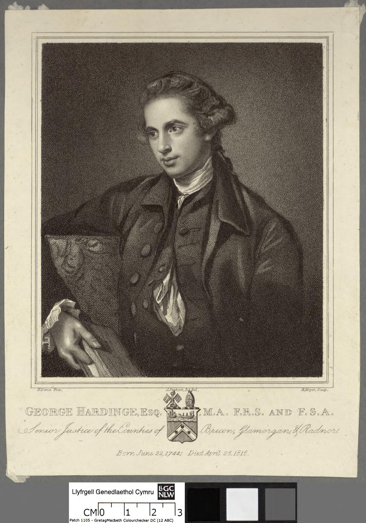 A portrait from the Welsh Portrait Collection at the National Library of Wales. Depicted person: George Hardinge – British politician